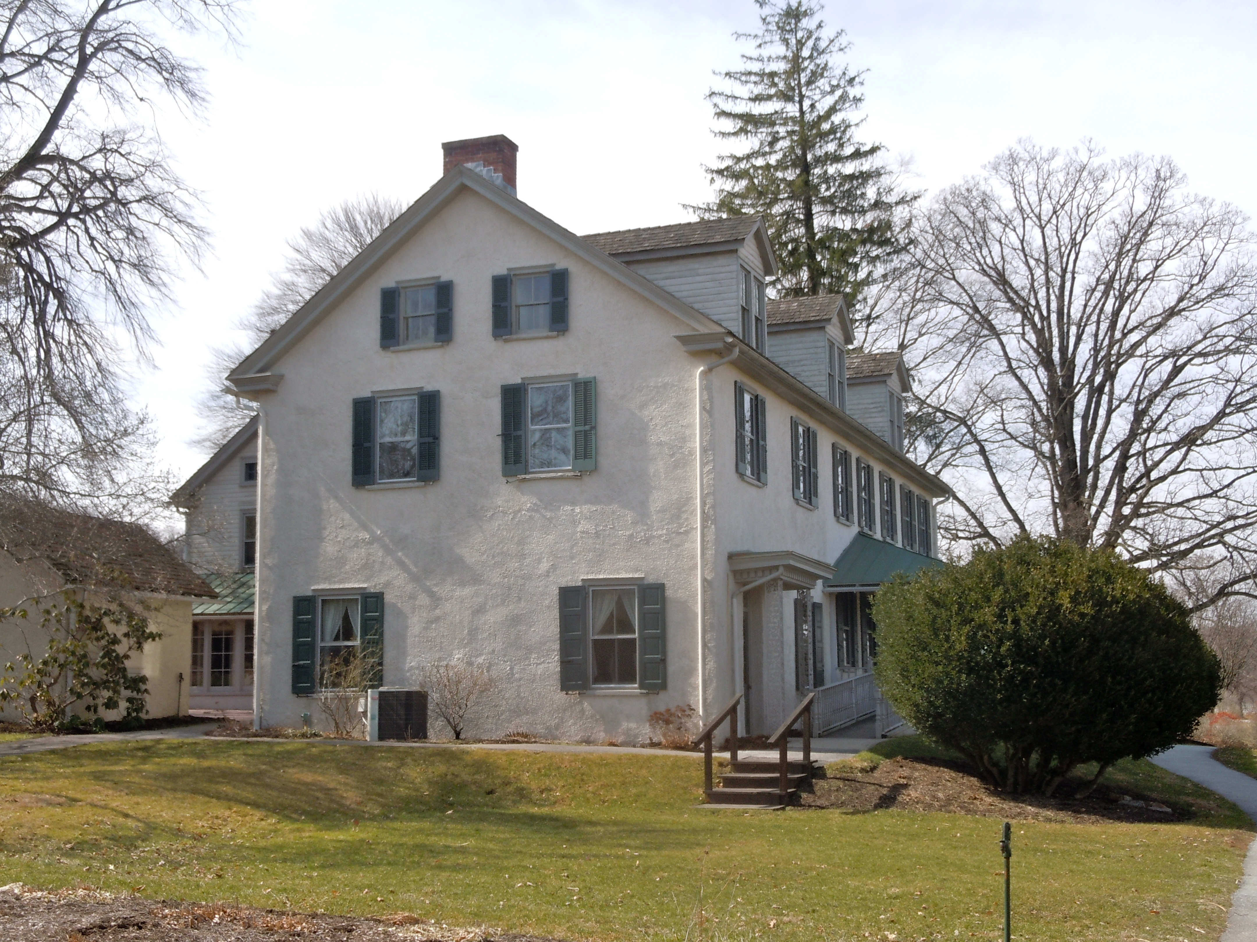 Springton Manor Farm on the NRHP since August 7, 1979, since made into a very nice Chester County Park. Located south of Glenmoore at Springton and Creek Roads, in Wallace Township, Chester County, Pennsylvania.